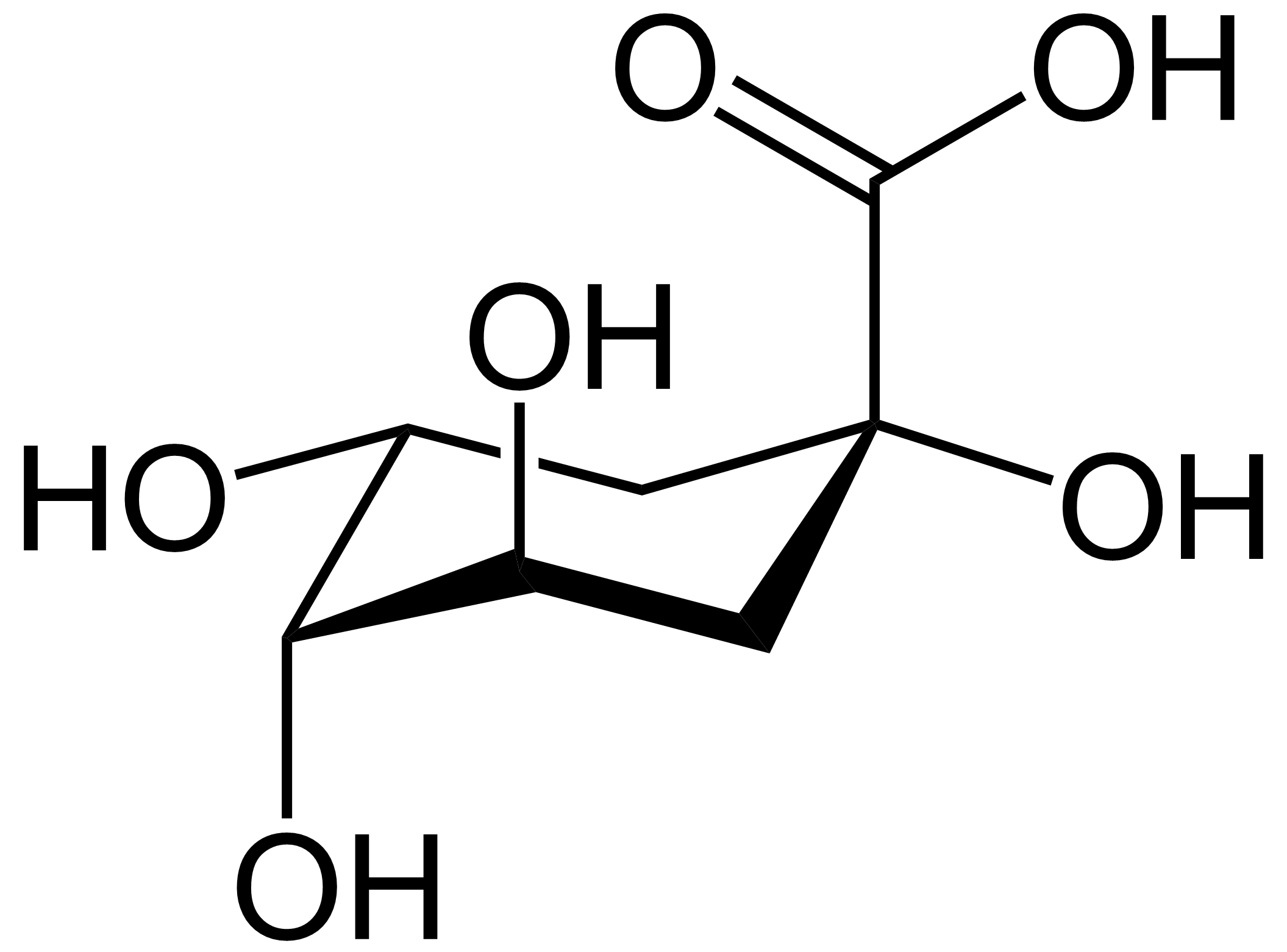 Structure of quinic acid